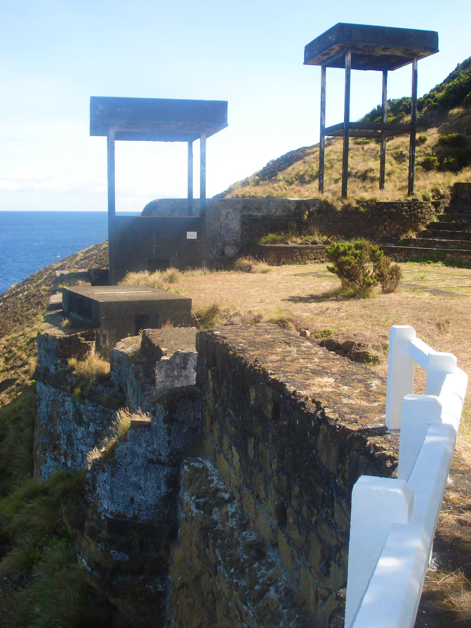 The Fort of Greta and deactivated 20th century radar lookouts on the slopes of Monte da Guia, civil parish of Angústias, municipality of Horta (Azores), Portugal